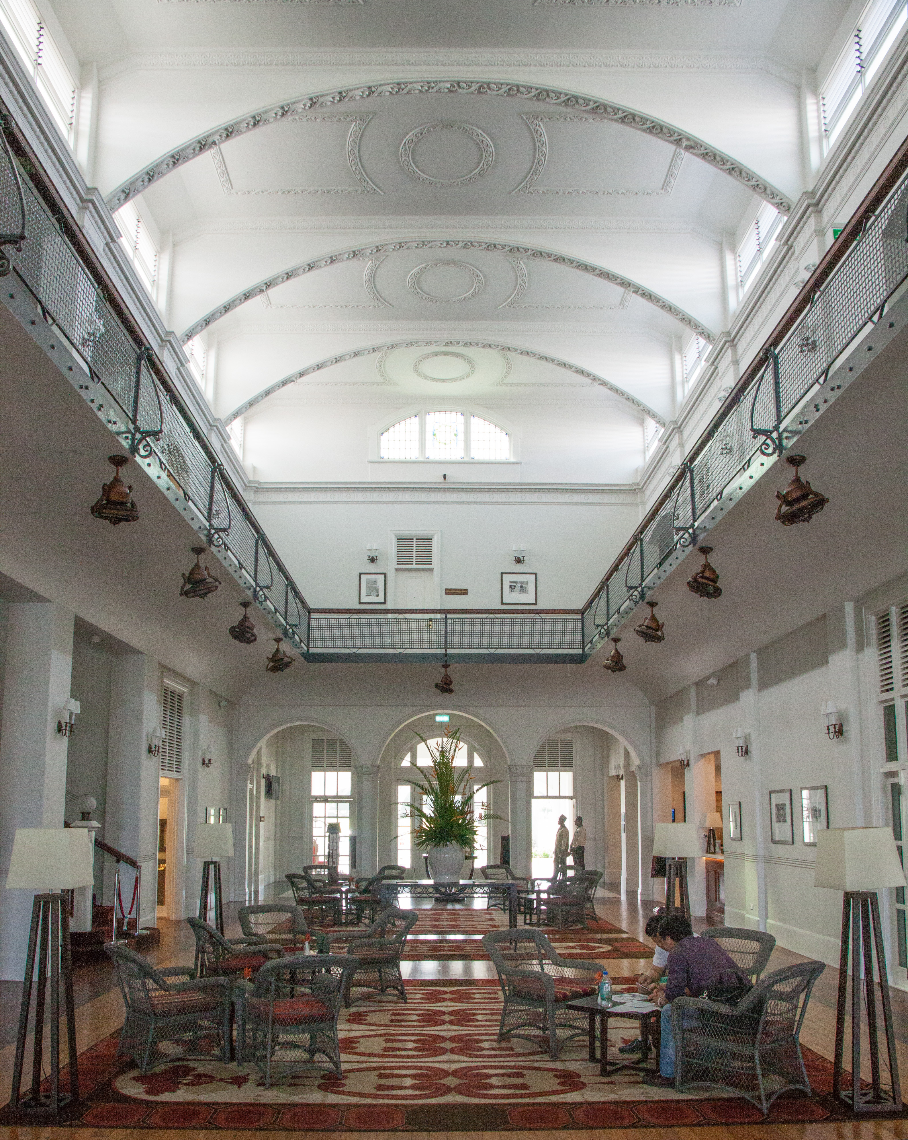 The Grand Pacific Hotel (Suva)